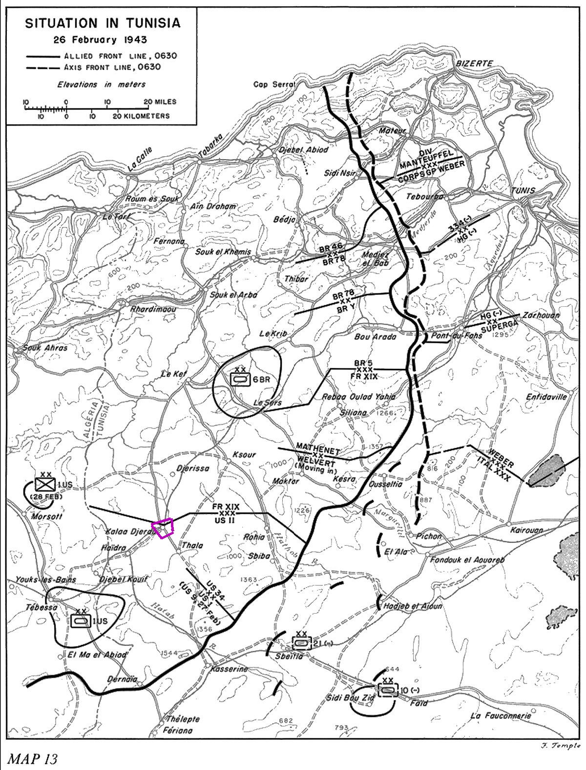 Map of US Army forces in Tunisia, 1943 highlighting Kalaa Djerda Airfield